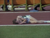 John Treacy collapsed on the track at Moscow 1980